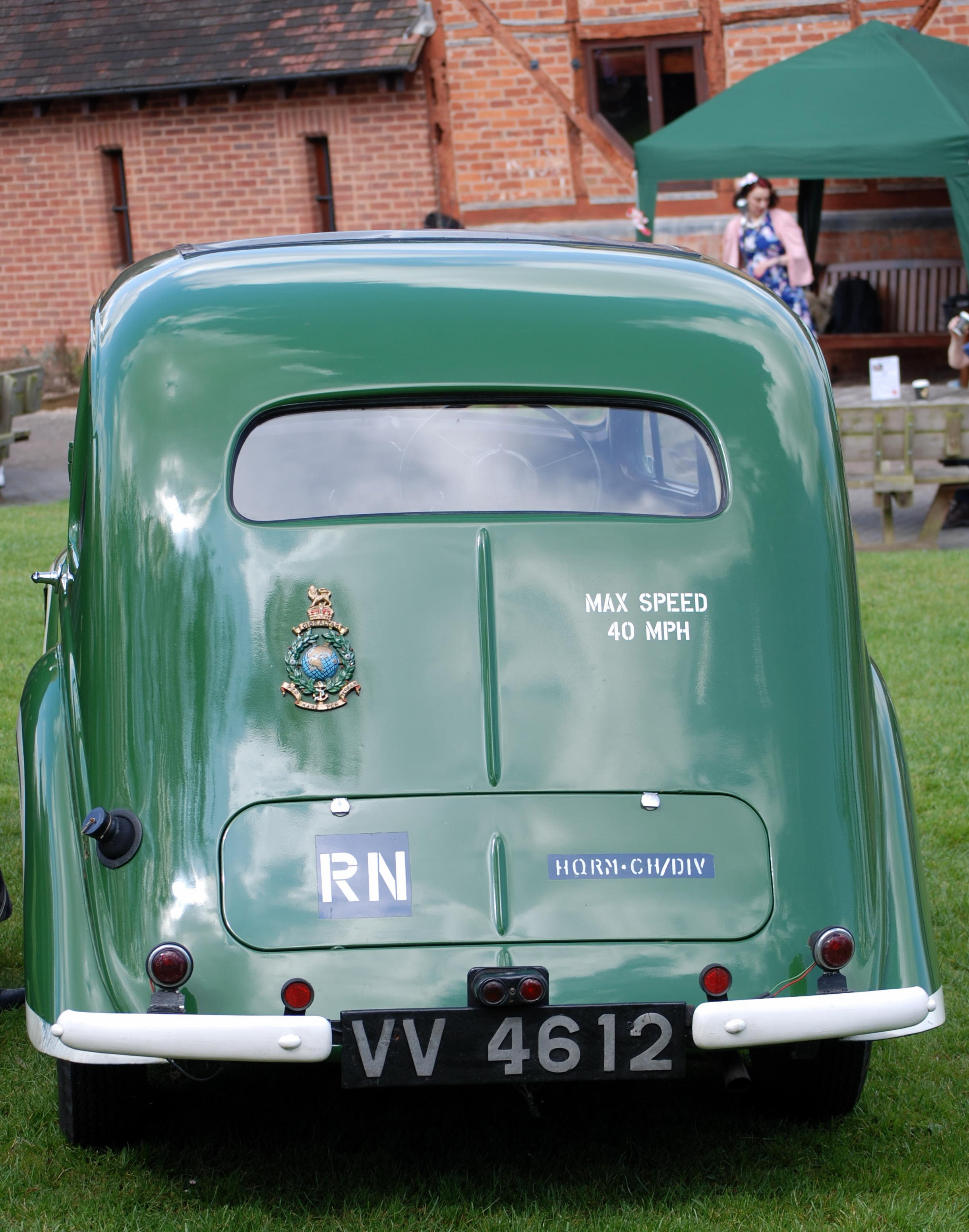 Hillman Minx 1936(DVLA) first registered 26 February 1936, 1100cc At Forge Mill Needle Museum's World War II Day, 2013, Redditch, Worcestershire. Photo ref; Nikon D80-2013-DSC_0157